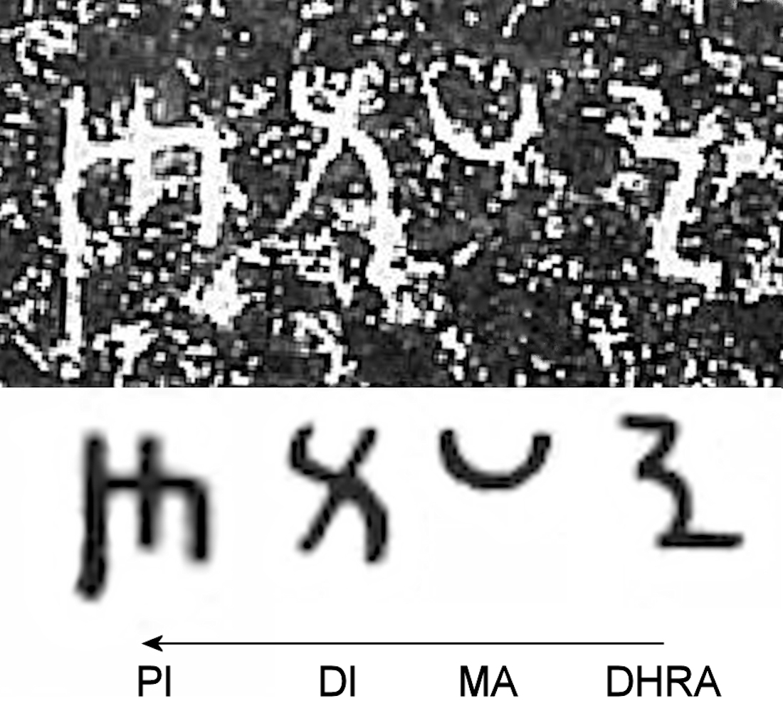 Dhrama Dipi inscription in the Shahbazgarhi First Edict in the Kharosthi script. Detail of this image.